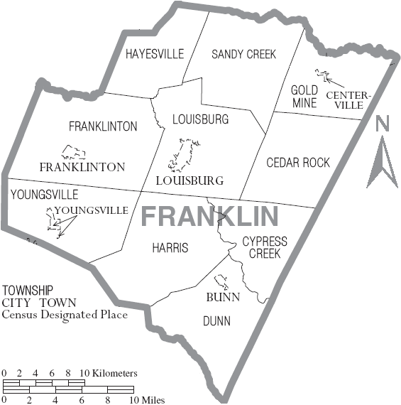 Map of Franklin County, North Carolina, United States with township and municipal boundaries